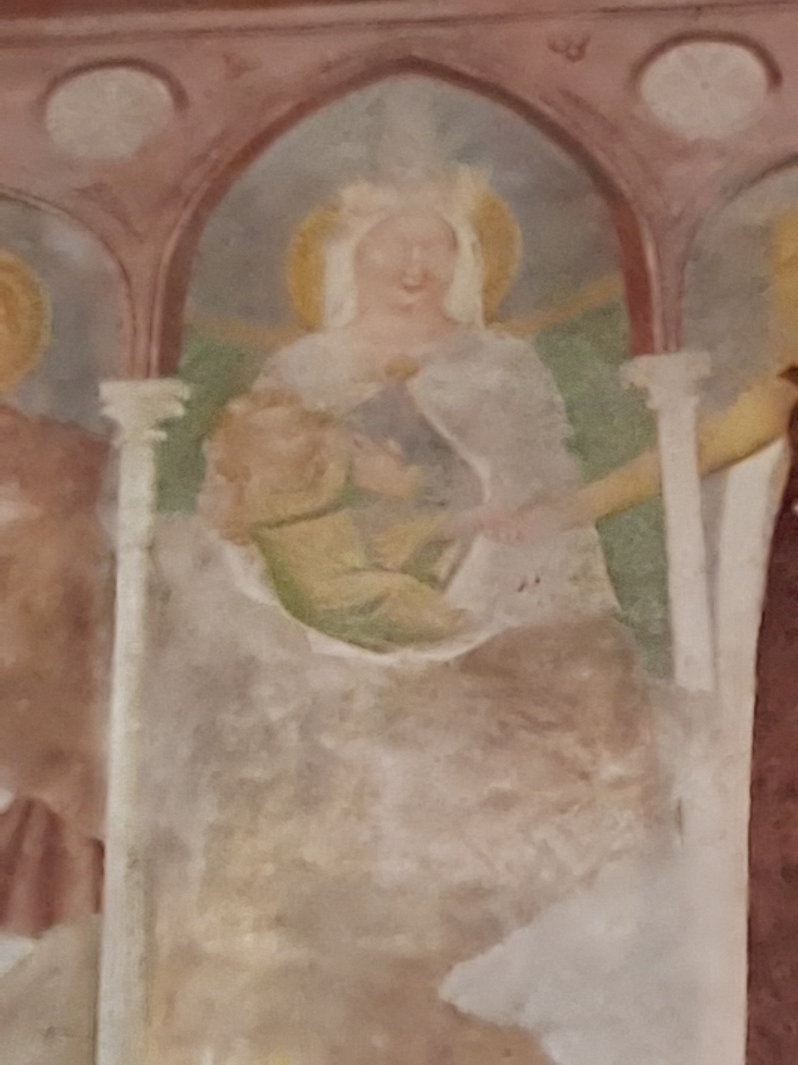 Fresco of the Bl. Virgin Mary in Caorle cathedral